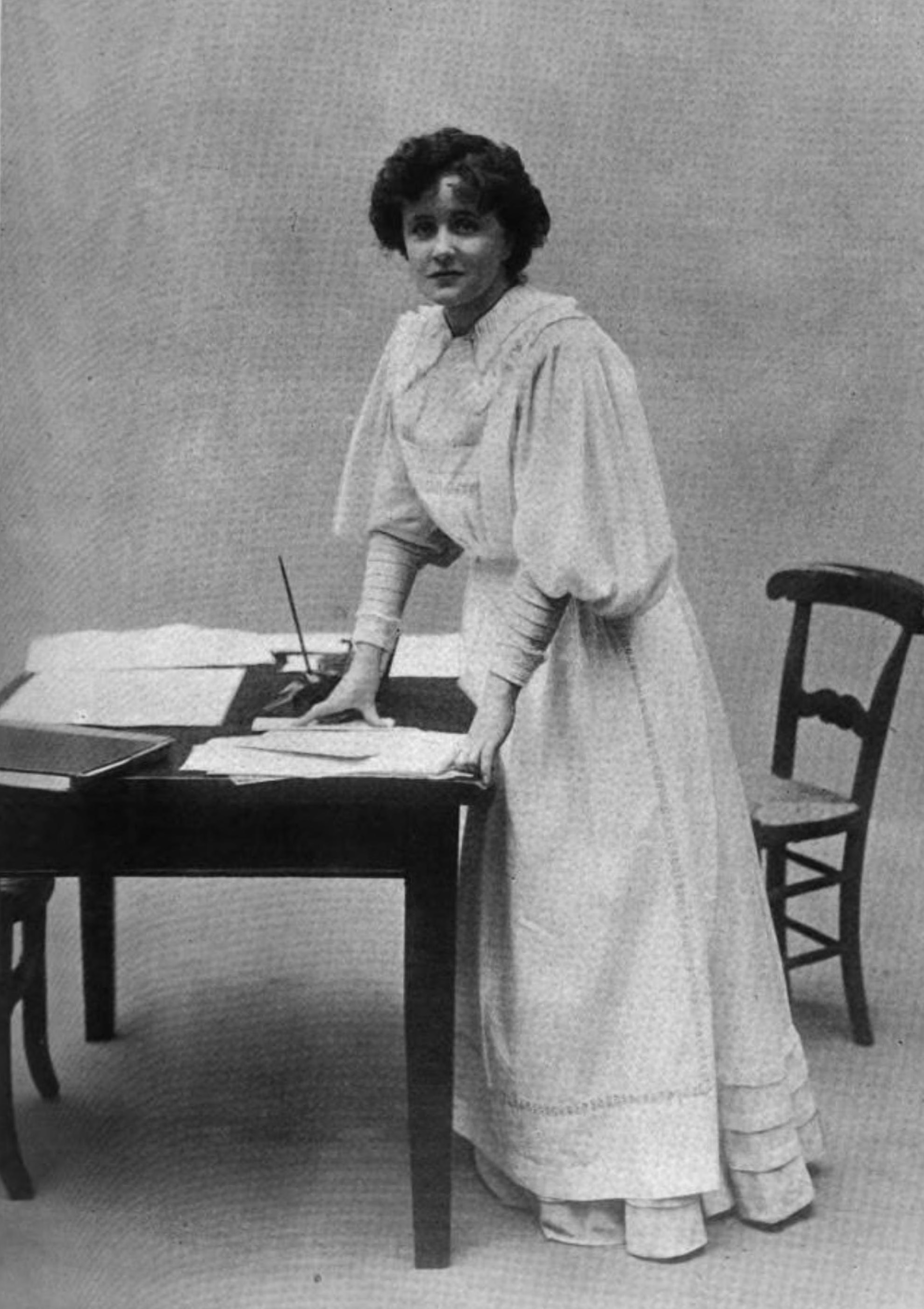 Eva Moore